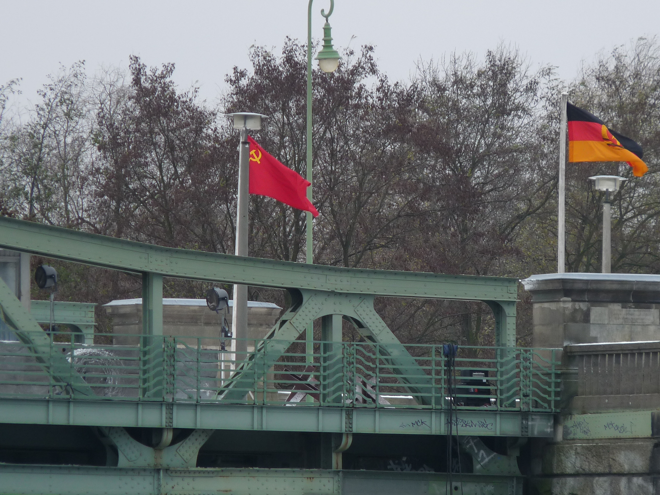 On weekend of november, 28th, until december, 1st, 2014, the Glienicke Bridge between Potsdam and Berlin was closed for any public traffic and was remade according to historical state and situation on february, 10th, 1962, in order to take movie shots for the film now known as Bridge of Spies.